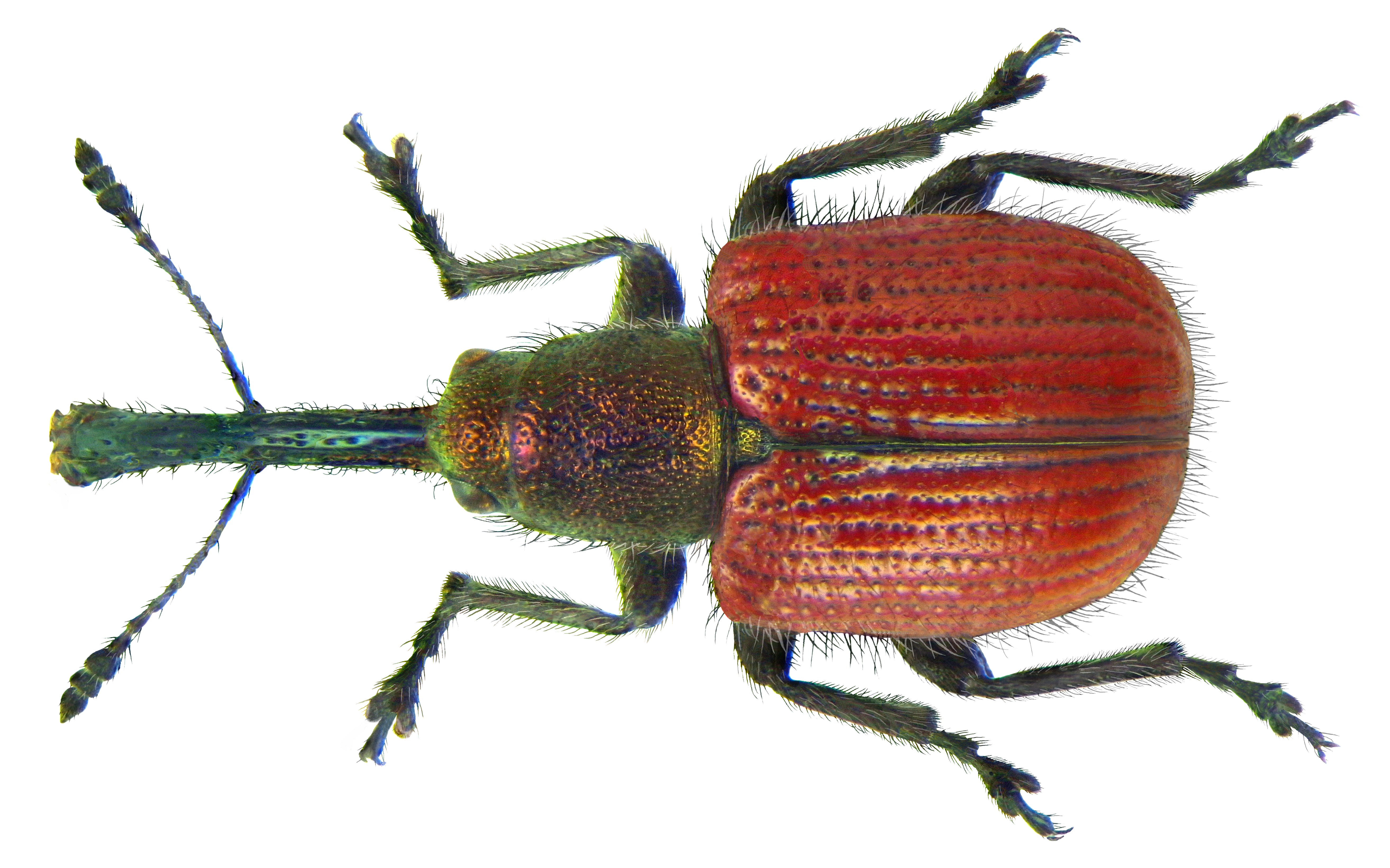 Family: Rhynchitidae Size: 2.7 to 4.5 mm Origin: Europe Ecology: in shrub and tree-like Rosaceae, especially Crataegus Location: Germany, Bavaria, Upper Franconia, Selbitz leg.det. U.Schmidt, 13.V.2005 Photo: U.Schmidt, 2012